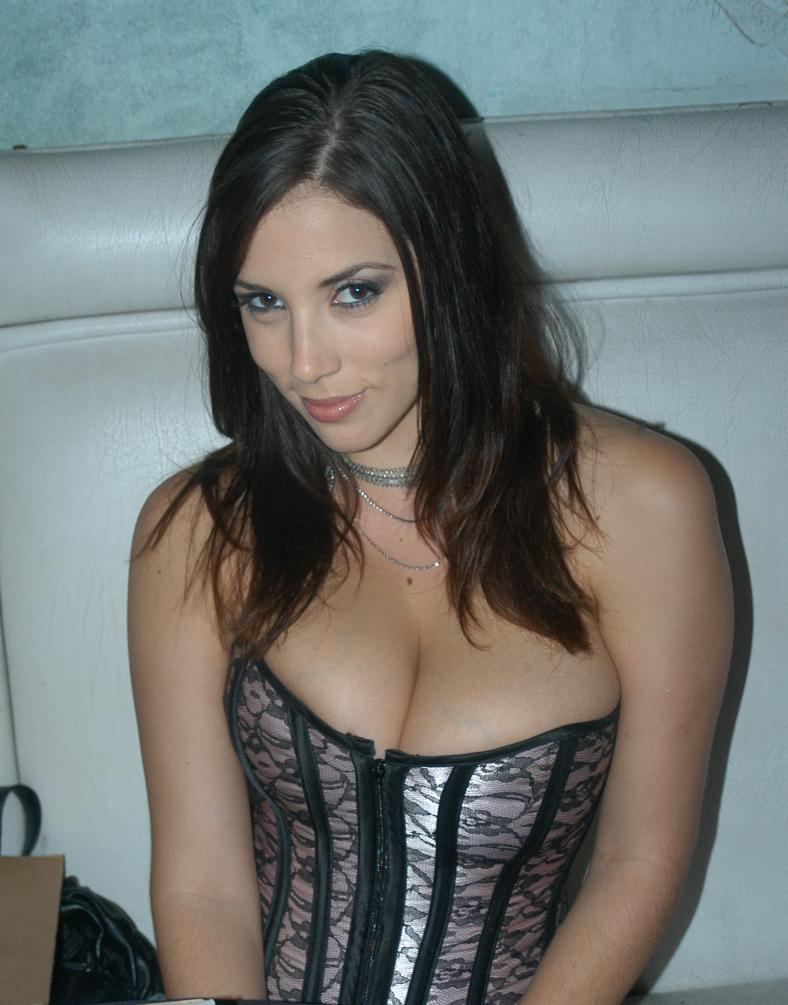 Jelena Jensen, Red Light District Fundraiser For Red Cross Katrina Relief